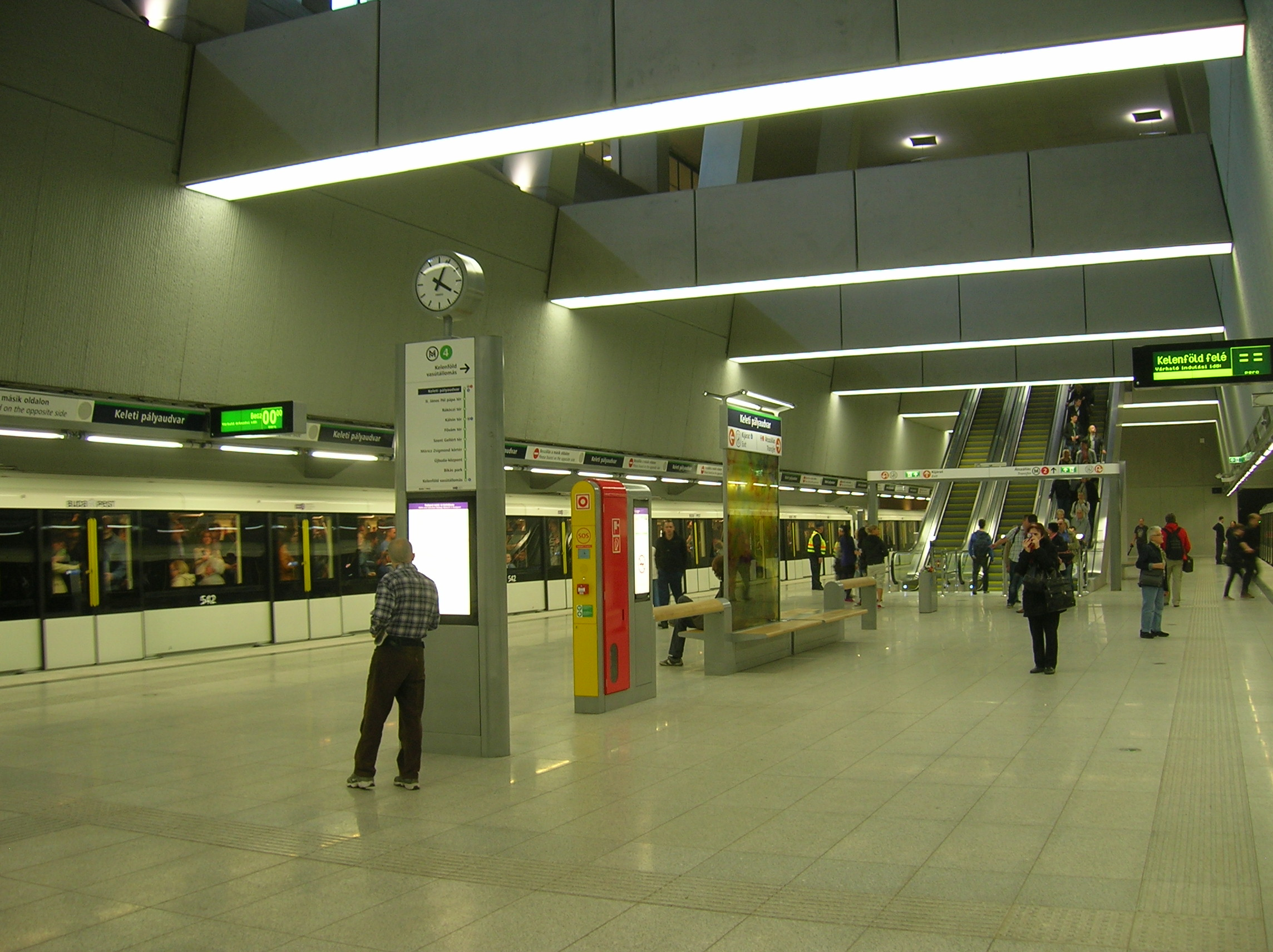 Keleti railway station, terminus of Budapest Metro line 4, at the day of its opening. An Alstom Metropolis train is arriving.